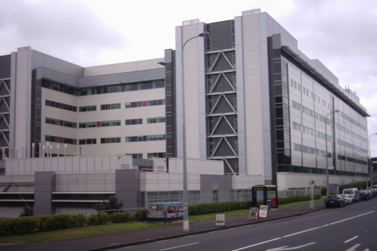 The newer part of Auckland City Hospital, Auckland City, New Zealand, as seen from Park Road. Not visible are the interior courtyards, designed to provide natural lights in all areas of the building.